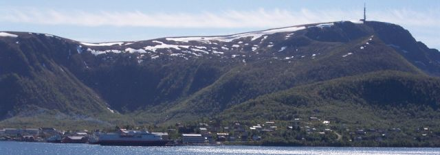 Stockmarknes, Norway